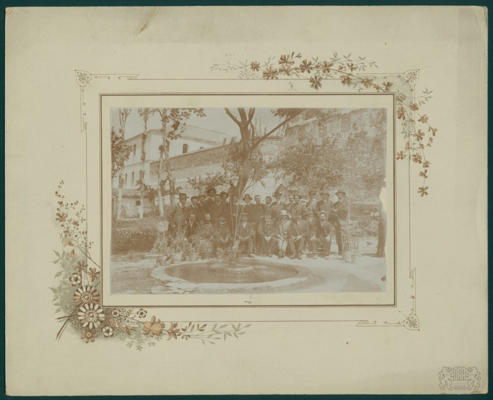 Sofia_University_Professors_in_front_the_Yedi_Kule_Fountain.